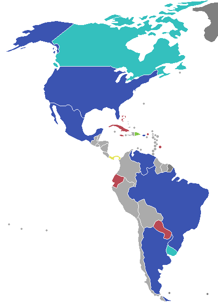 Best finishes of countries in the FIBA Americas Championships. First place Second place Fourth place and better Eighth place and better Worse than eighth place FIBA Americas member, no appearance yet Not a FIBA Americas member